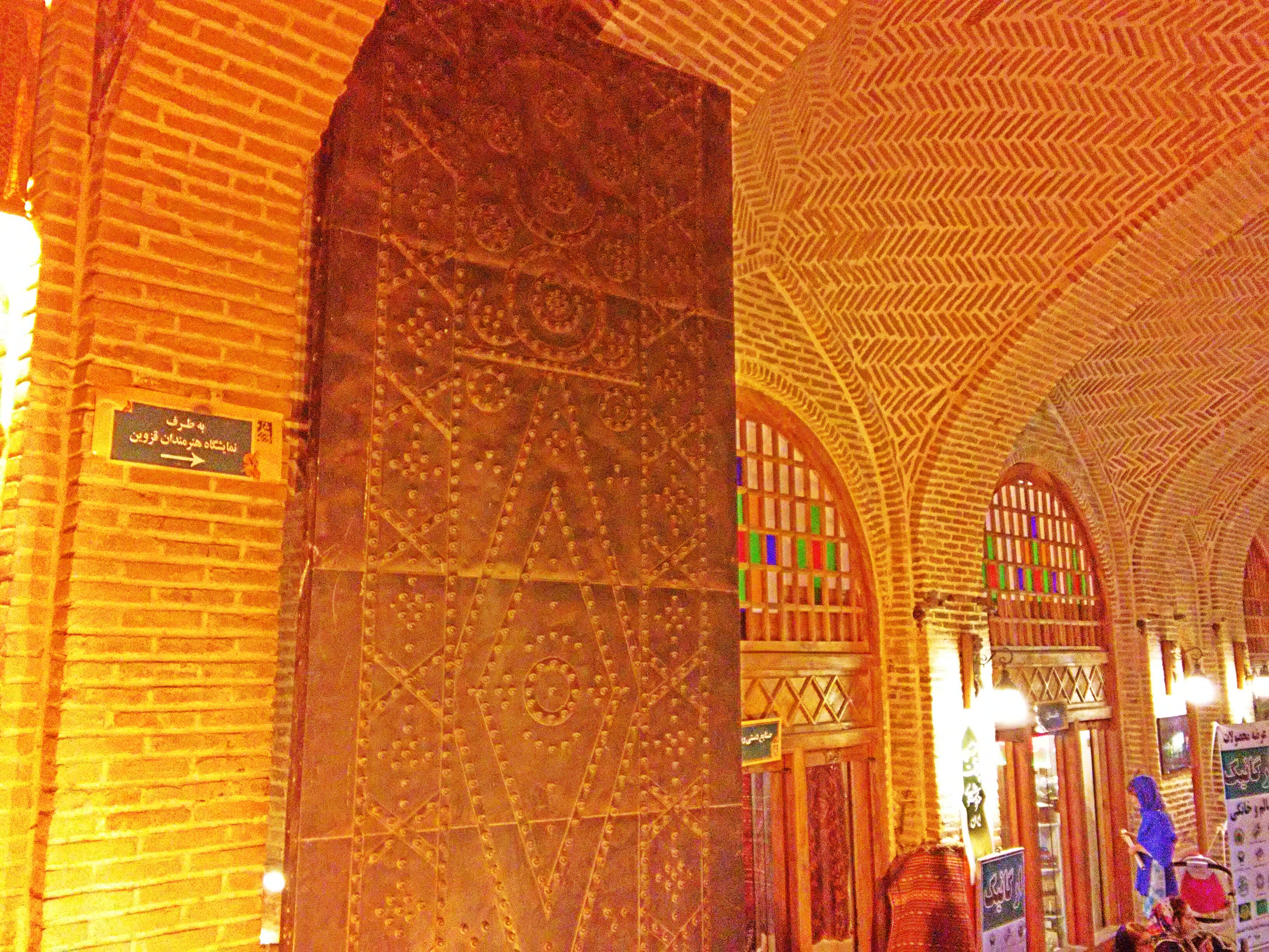 A door of sadosaltaneh